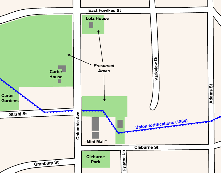 Maps depicting preserved areas on the Franklin Battlefield, Battle of Franklin (1864). Drawn in Adobe Illustrator CS5 by Hal Jespersen. Graphic source file is available at Attribution: Map by Hal Jespersen